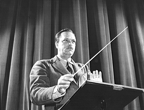 Leith Stevens, American composer. Original caption: Leith Stevens takes up the baton for a music cue. He is musical director of the War Production Board (WPB) series "Three Thirds of a Nation," presented Wednesdays over Blue Network. Stevens does original melodies and orchestration.